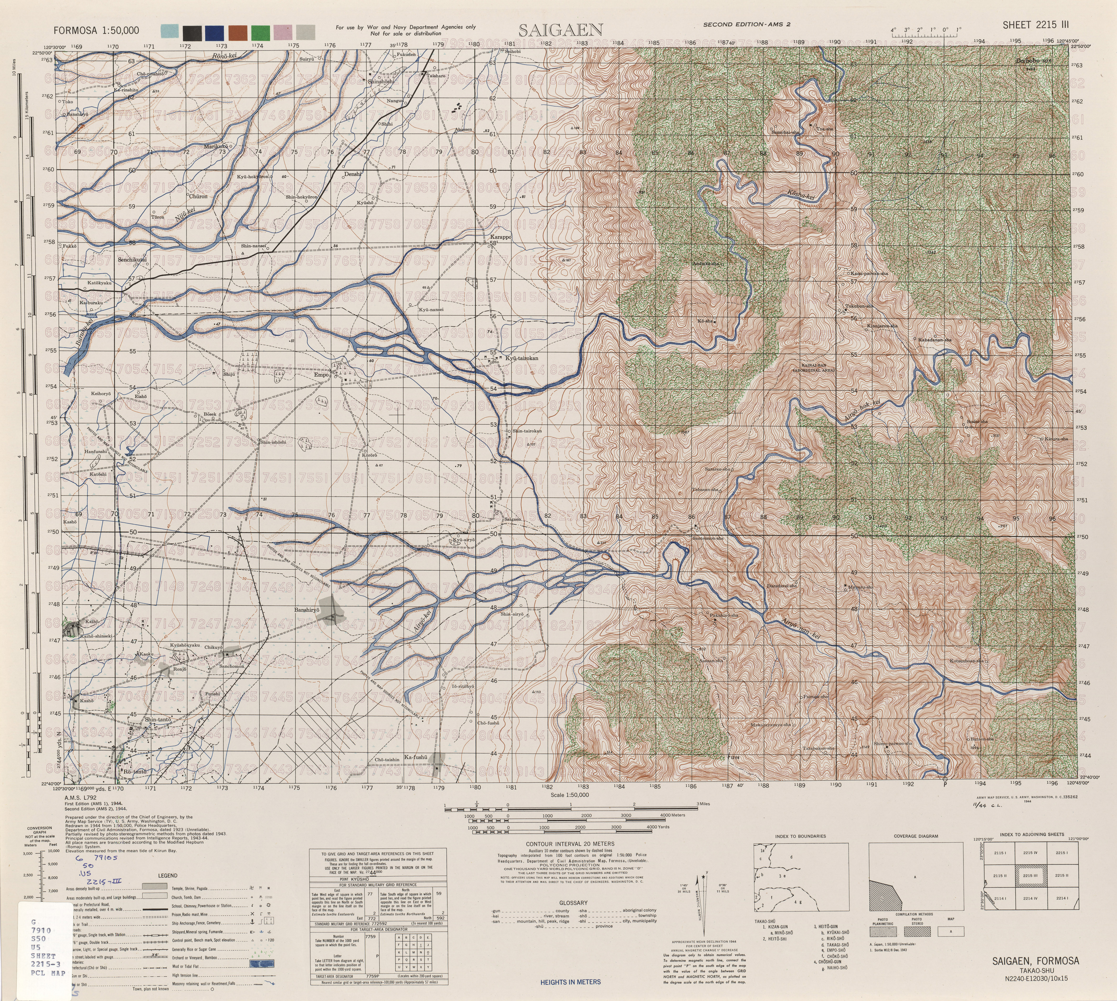 Map from Formosa (Taiwan) 1:50,000 AMS Series L792